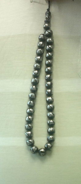 Beads made of Oltu stone. Oltu stone (Turkish: Oltu taşı), aka black amber, is a kind of jet found in the region around Oltu town within Erzurum Province, eastern Turkey. The organic substance is used as semi-precious gem stone in manufacturing jewellery.